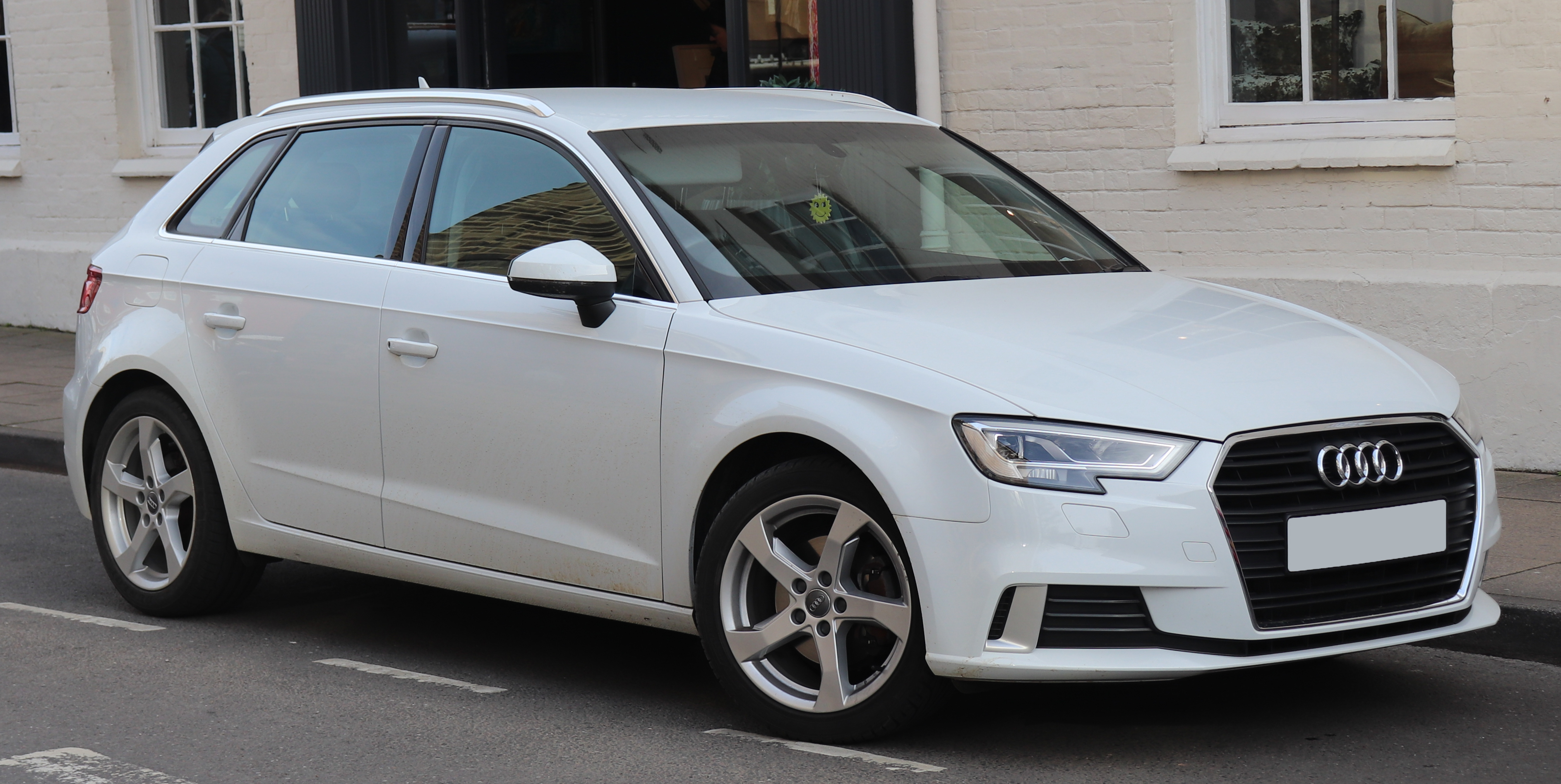 2016 Audi A3 Sport TDi 1.6 Front Taken in Warwick